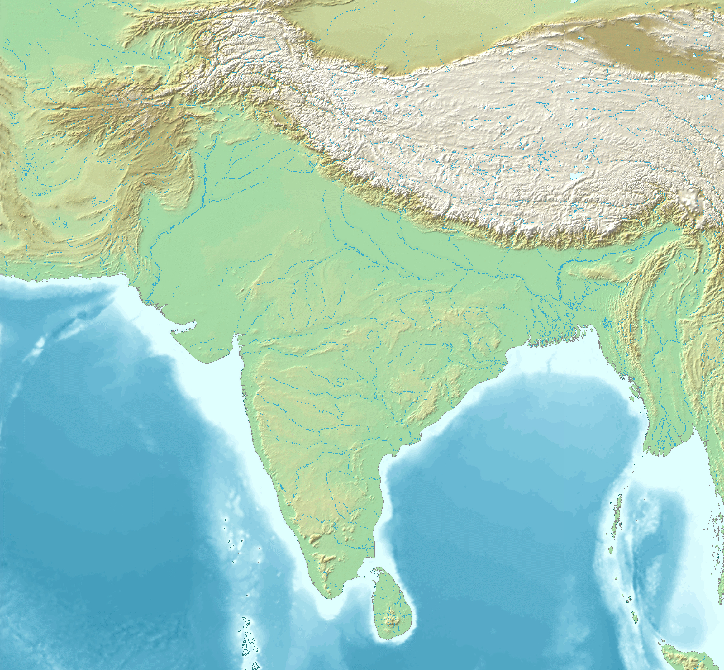 South Asia non political, with rivers